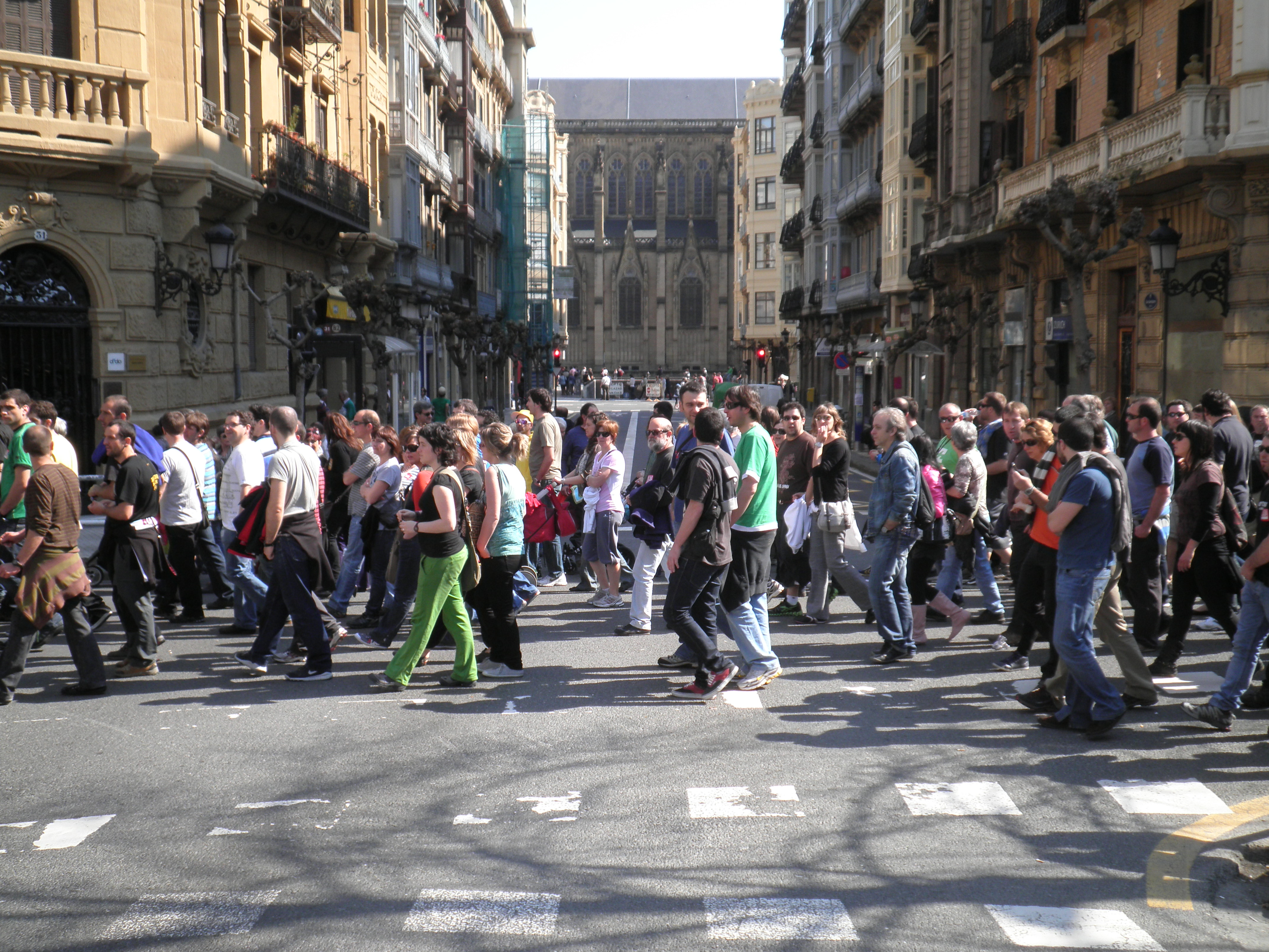 2012-03-29 general strike in Donostia.